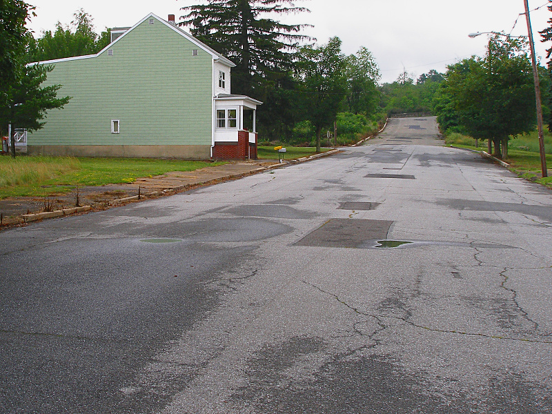 Centralia, Pennsylvania, USA, solitary house at 411 South Troutwine Street between Centre St. (Route 61) and Main St. - street map